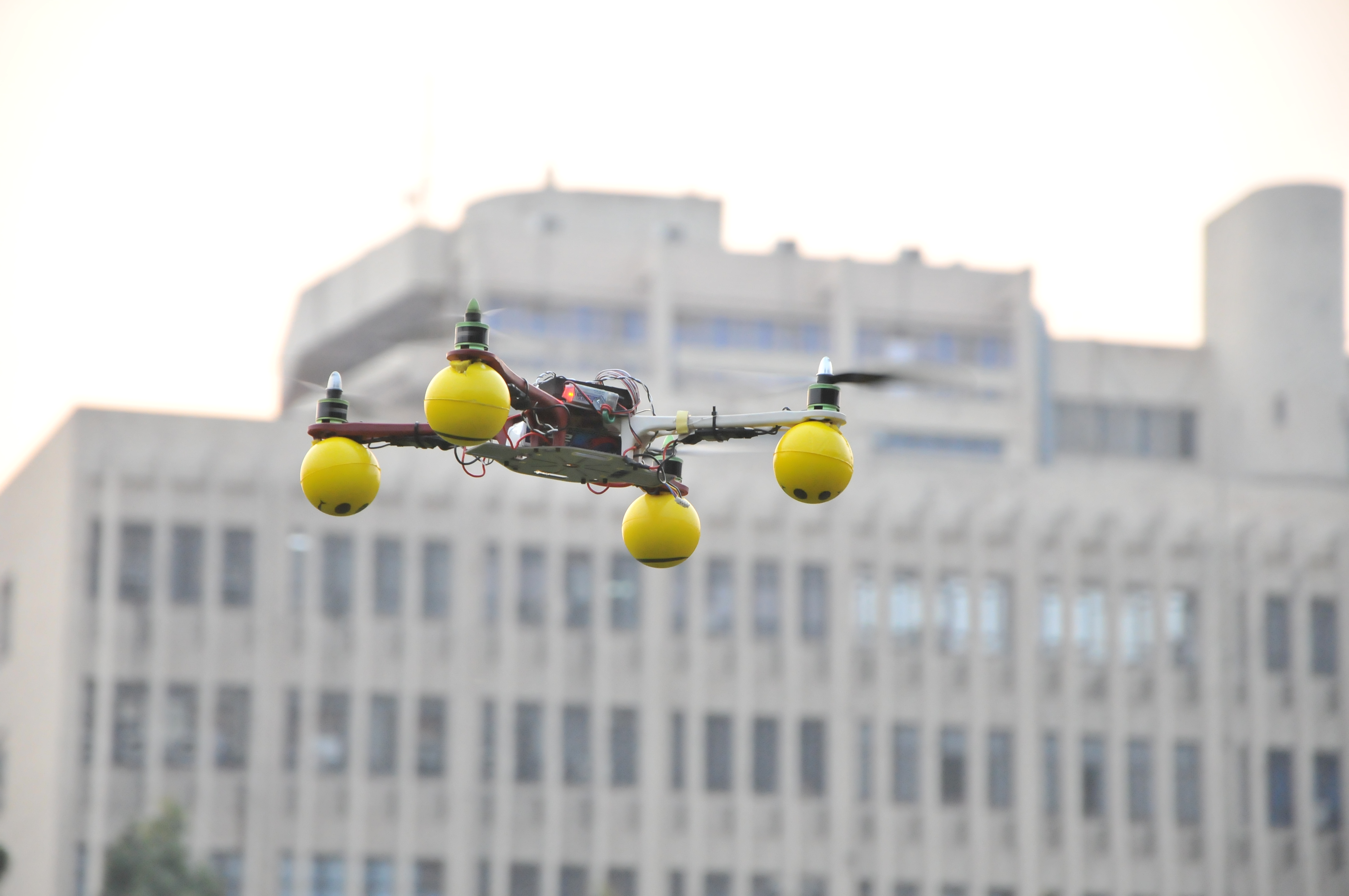 workshop